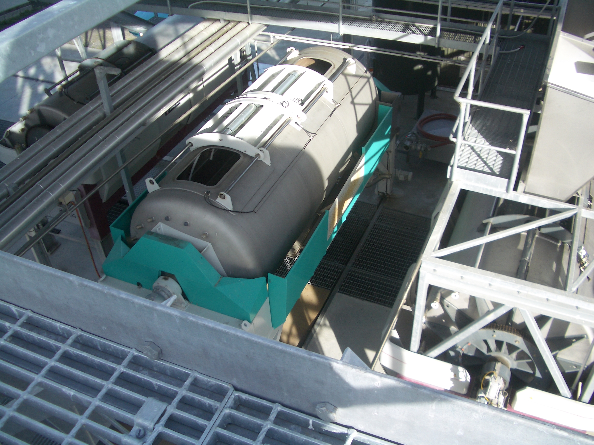 Overhead view of three large wine presses.